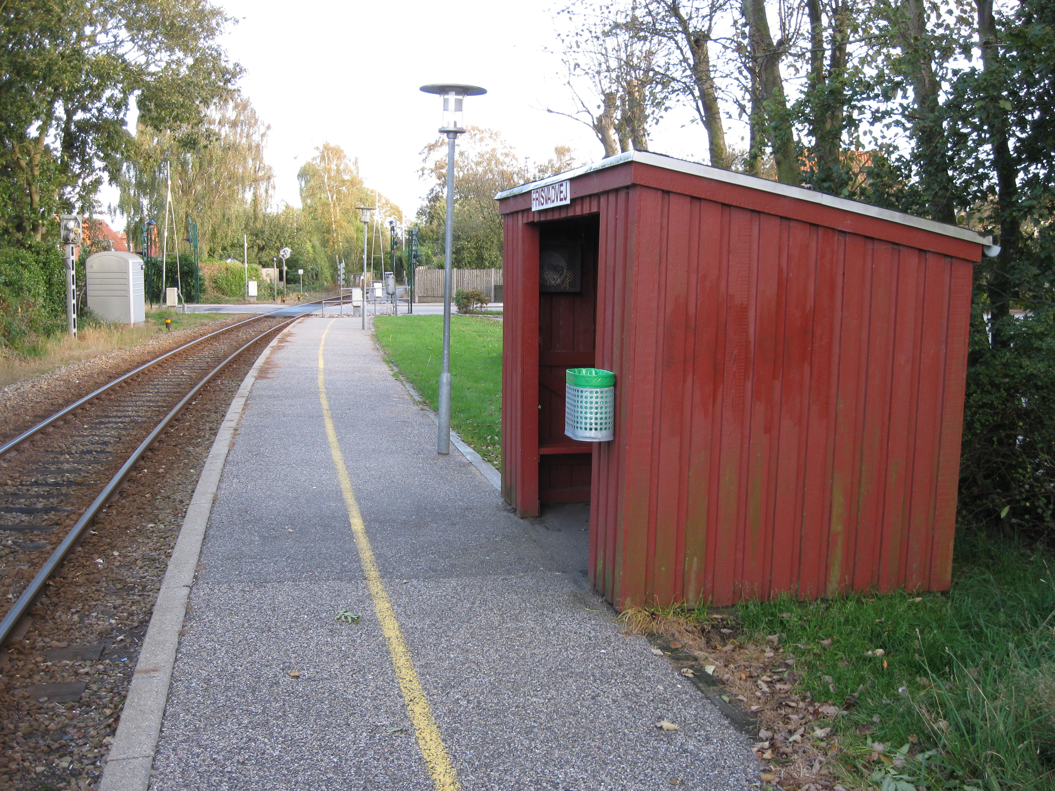 Frisvadvej Station, Varde, Denmark